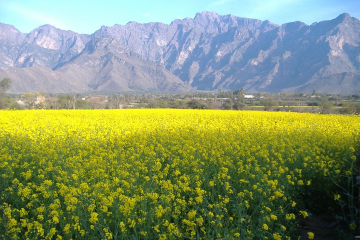 Mian Khan beautiful landscapes at the start spring season